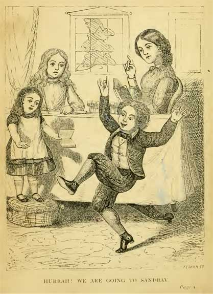 Illustration by Tom Hood (1835-1874) for ales of the Toys told by Themselves by Frances Freeling Broderip (1869 )